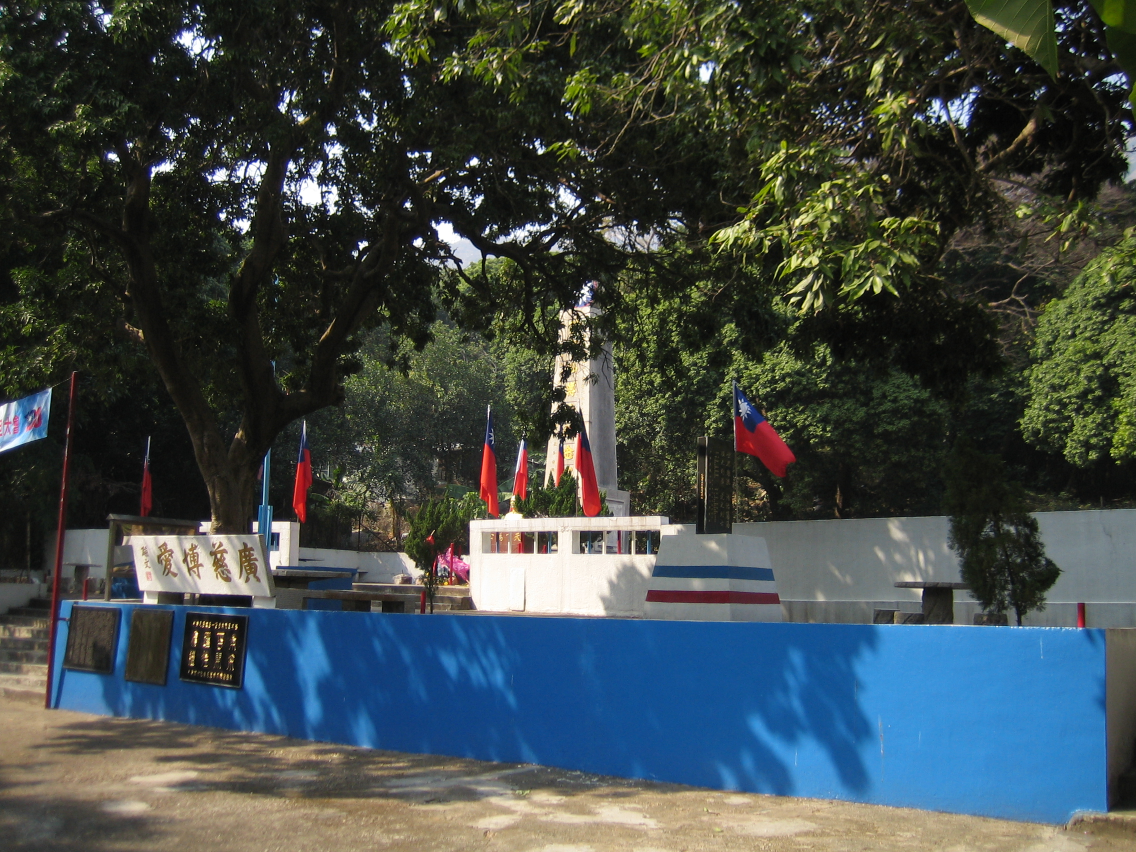 Hung Lau, Tuen Mun, Hong Kong. If you have any questions about the licensing (like cc-by-sa, GFDL), or you want to republish the image without using the licensing shown as below, you are welcome to leave a message on the User Talk Page of my Chinese Wikipedia account.